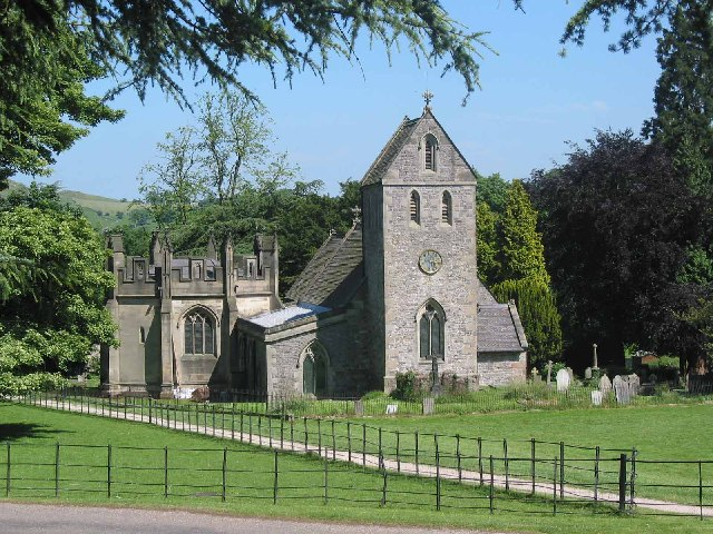 The Church of the Holy Cross Ilam. Originally a Saxon church with some Norman and Early English features. On the south wall there is a walled-up old Saxon doorway, and there are the stumps of two Saxon crosses in the churchyard. Inside the church there is a excellent Saxon font. The church was further modified in the C17th by the Meverell family of Throwley Hall (see SK1152) and in Victorian Times by the Watts Russell family of Ilam Hall.